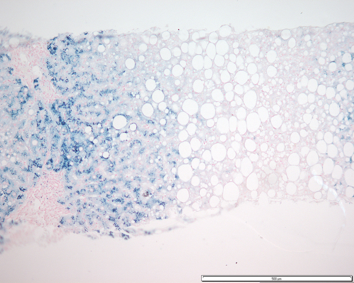 Grade 3 hepatocyte iron accumulation with an acinar distribution pattern consistent with homozygous genetic hemochromatosis. (Perl's Prussian Blue: ×10).